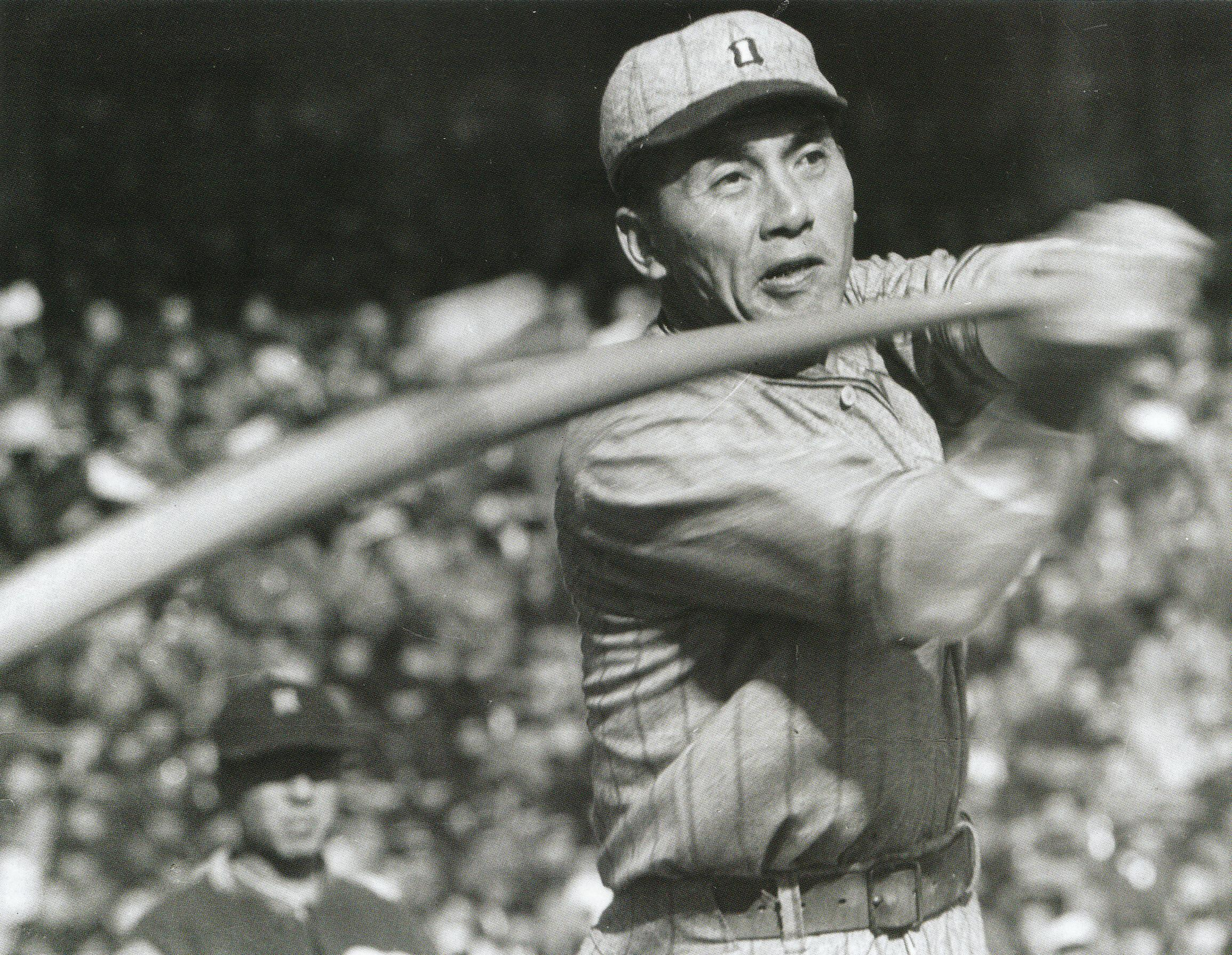 A professional baseball player from Japan, Fumio Fujimura.